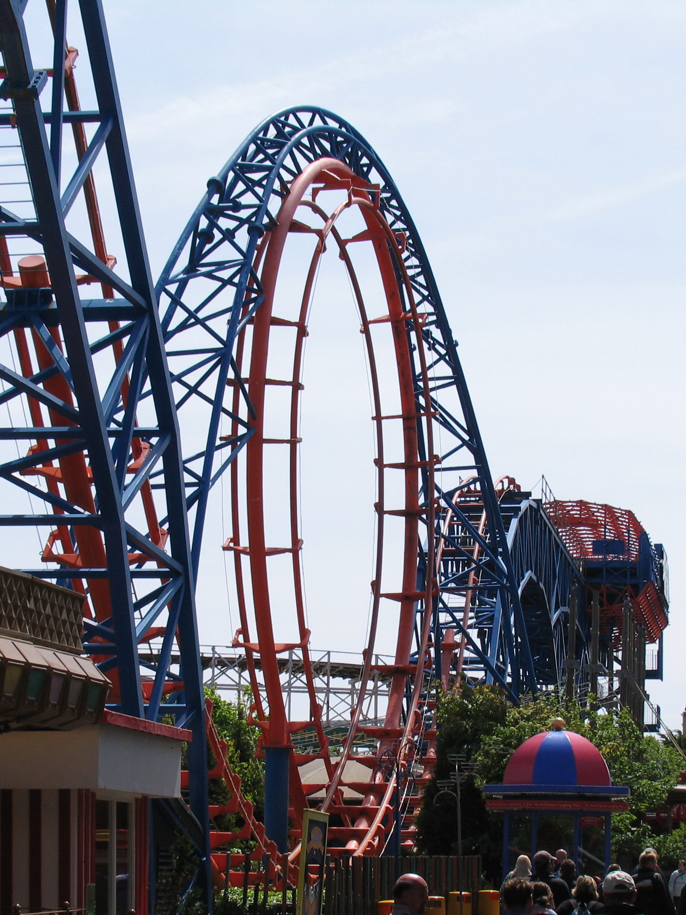 Roller coaster Irn Bru Revolution at Blackpool Pleasure Beach